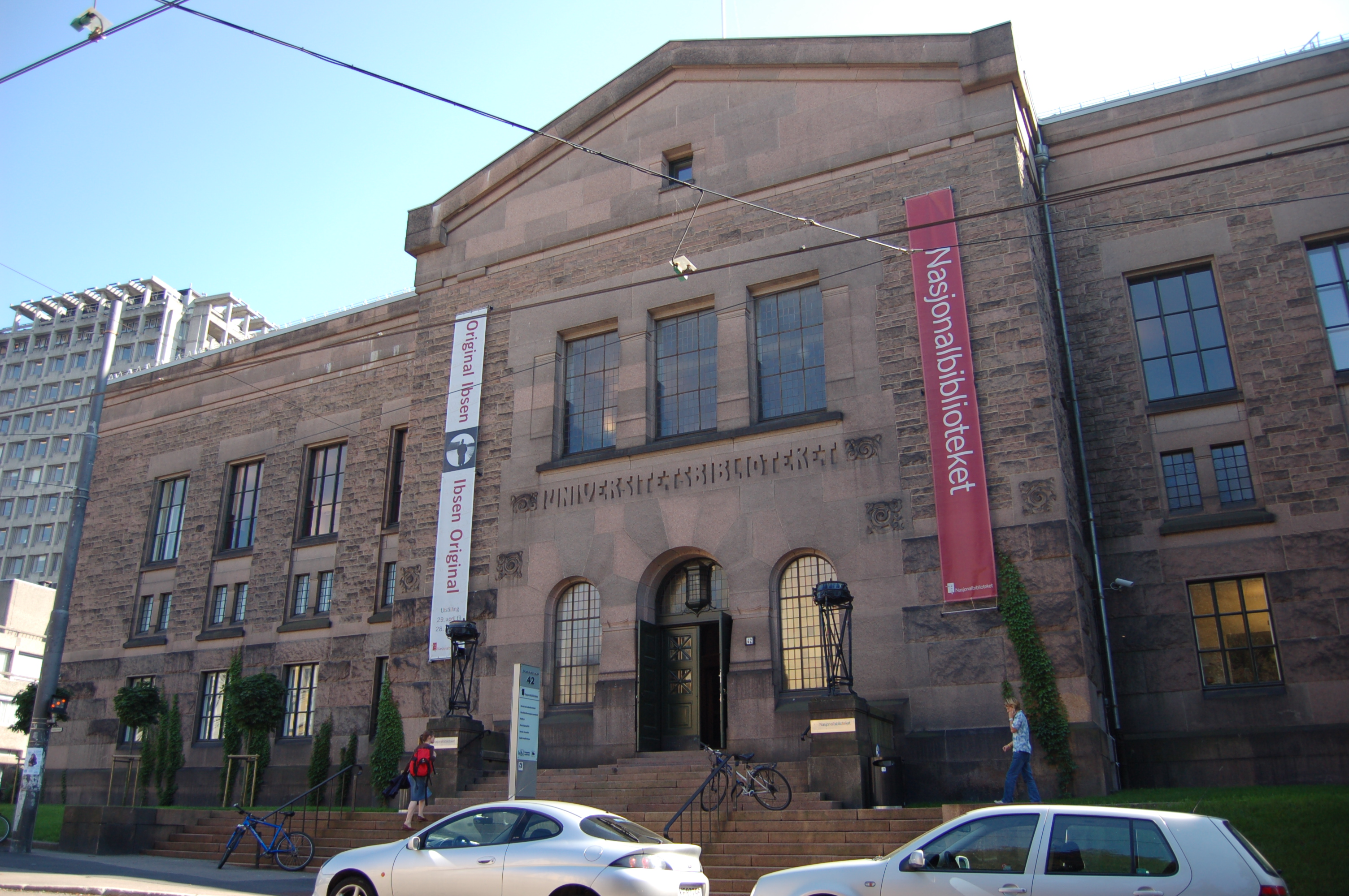 Nasjonalbiblioteket (National Library of Norway), Henrik Ibsens gate 110, Oslo. Built 1914-22 as the Oslo University Library. Architect: Holger Sinding-Larsen.